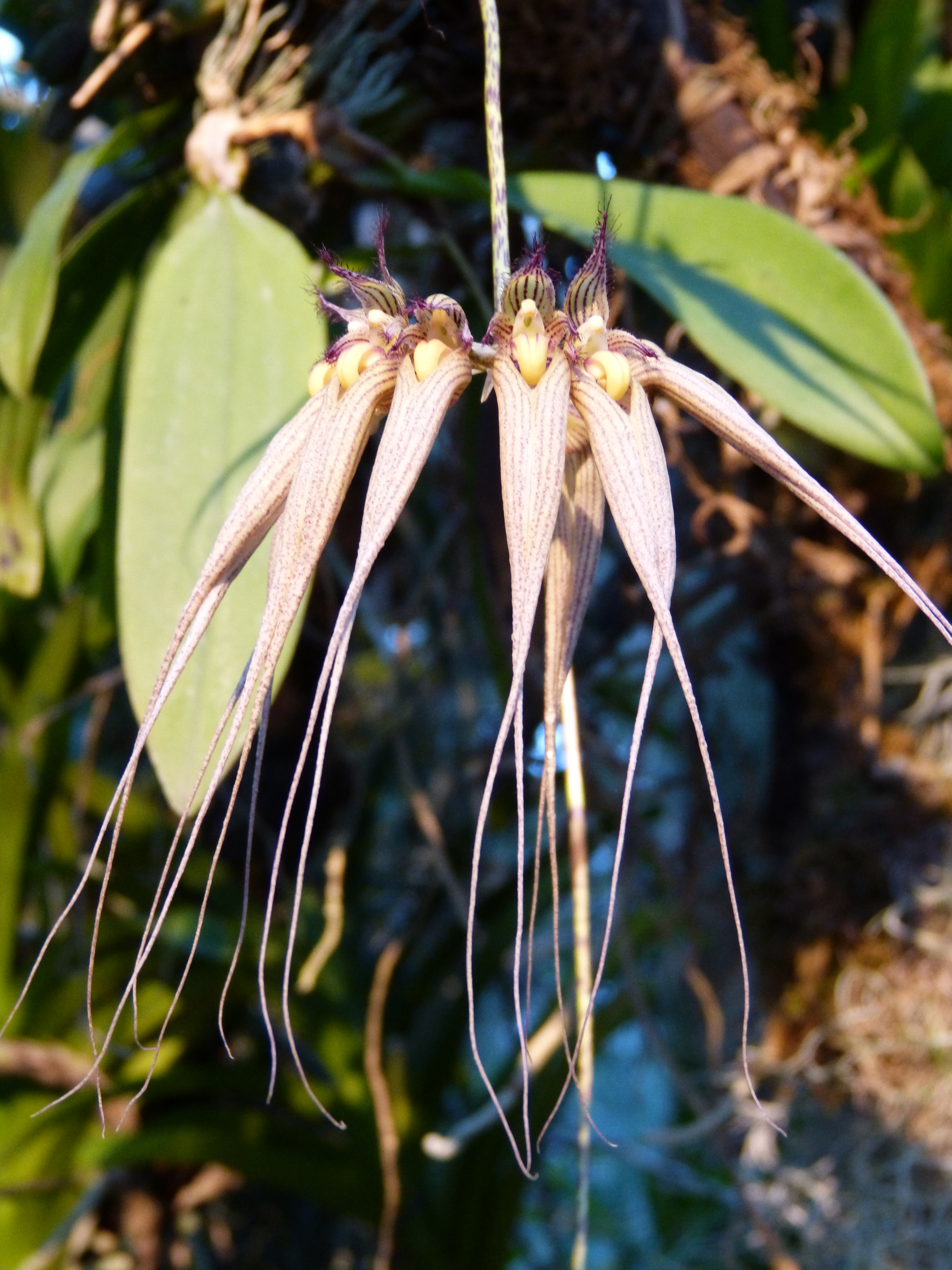 Bulbophyllum (Cirrhopetalum) macraei at the Tropenhaus in Frutigen.